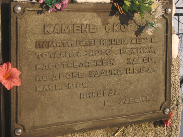 A commemorative plague at memorial to victims of political repressions in Biysk, Russia